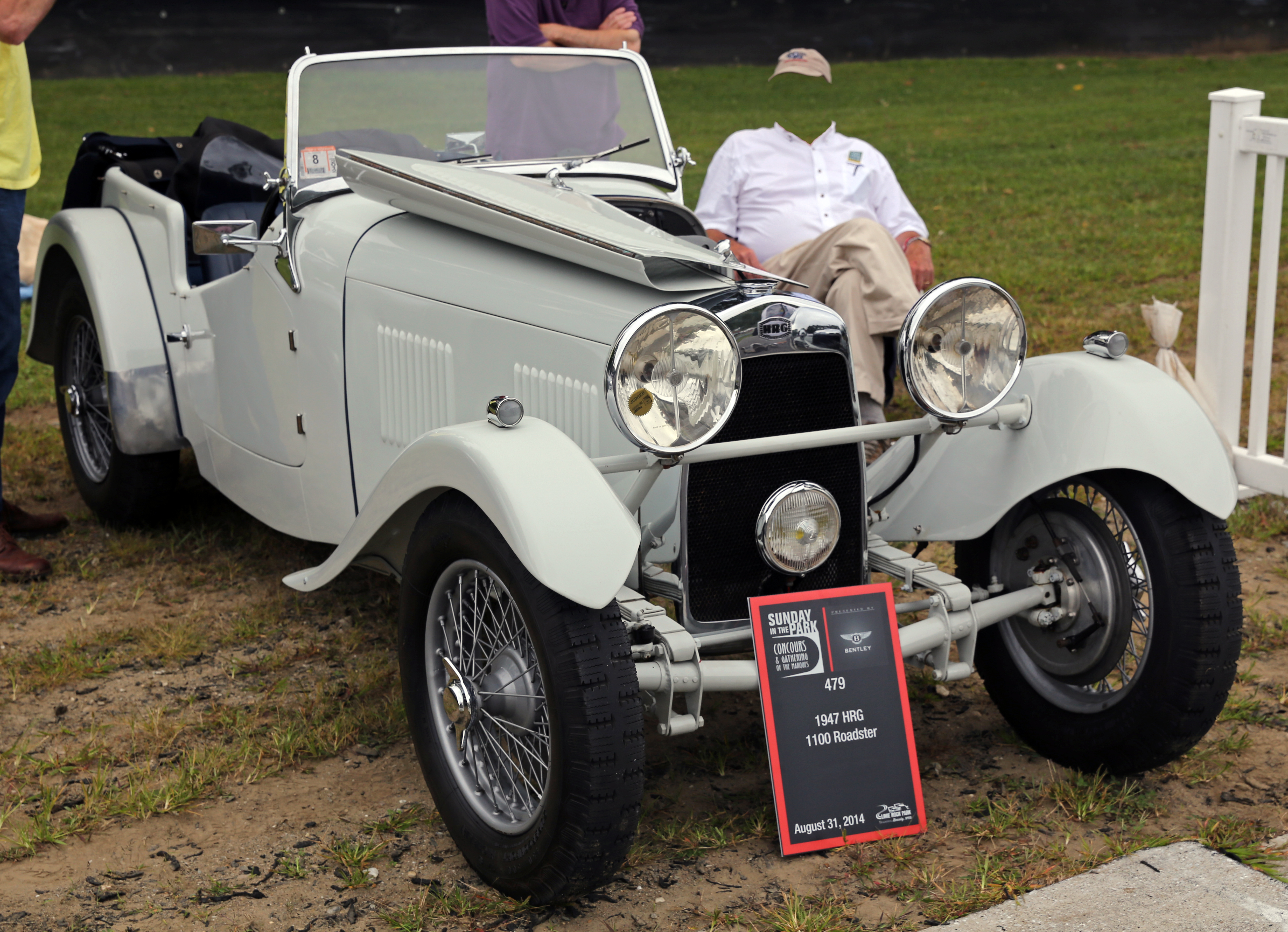 1947 HRG 1100 S-78 roadster (Singer engined) at the 2014 Lime Rock Concours d'Élegance.